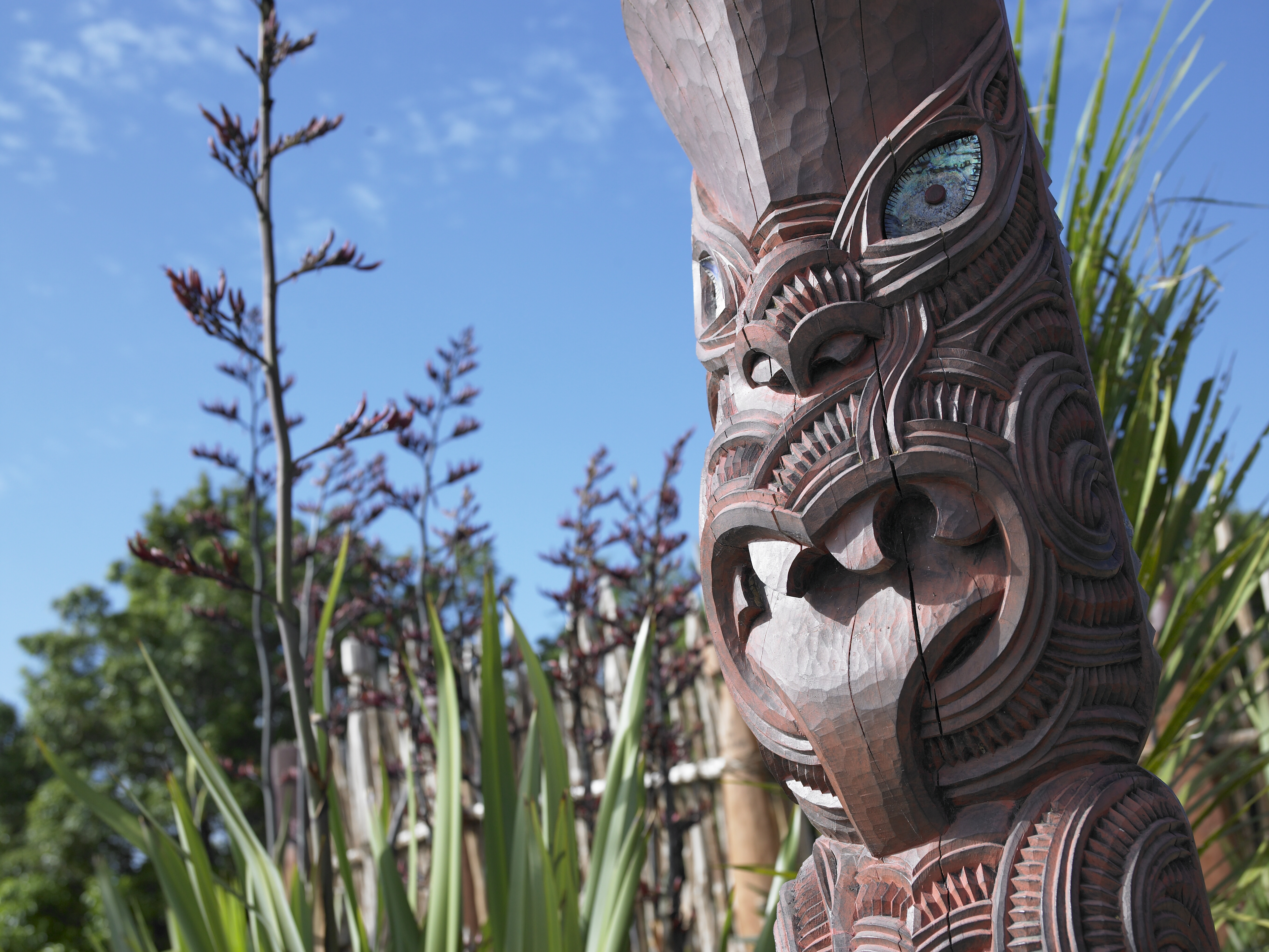 Hamilton Gardens - Te Parapara Garden